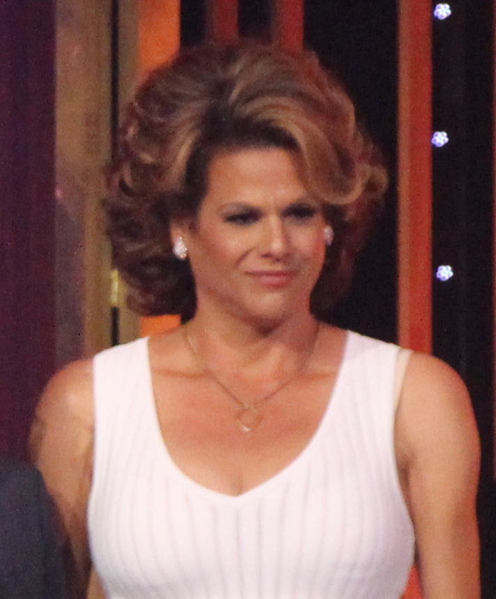 This photo includes the cast and crew of "Transparent," including Jay Duplass, Our Lady J, Ethan Kuperberg, Joe Lewis, Alexandra Billings, Ali Liebegott and Jill Soloway. (Photo/Sarah E. Freeman/Grady College, in New York City, Georgia, on Saturday, May 21, 2016)